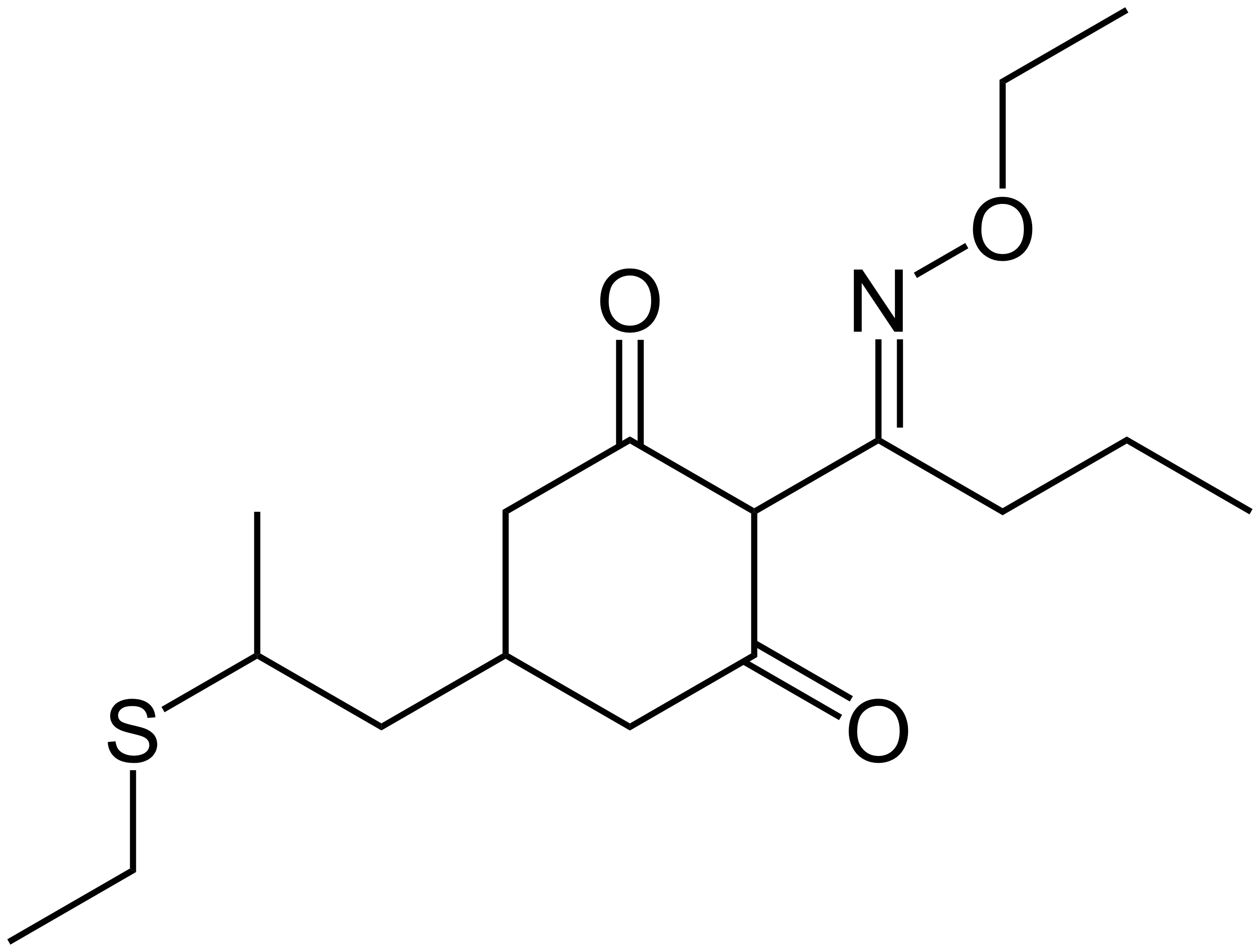 Chemical structure of sethoxydim, without stereochemistry